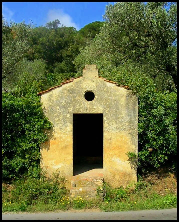 Elba island